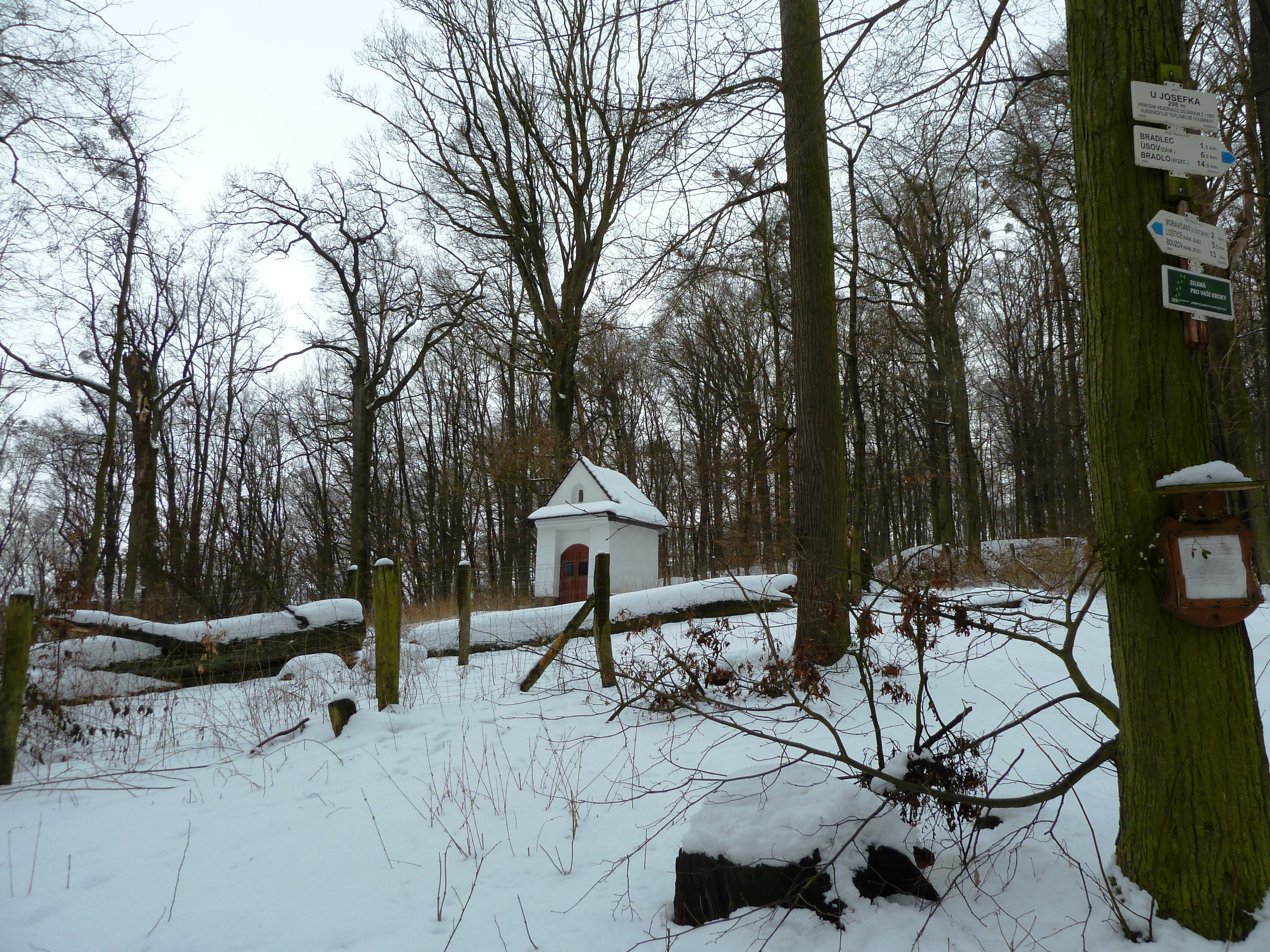 Crossway "U Josefka" in nature reserve "Doubrava" (near Moravičany, Czech Republic)